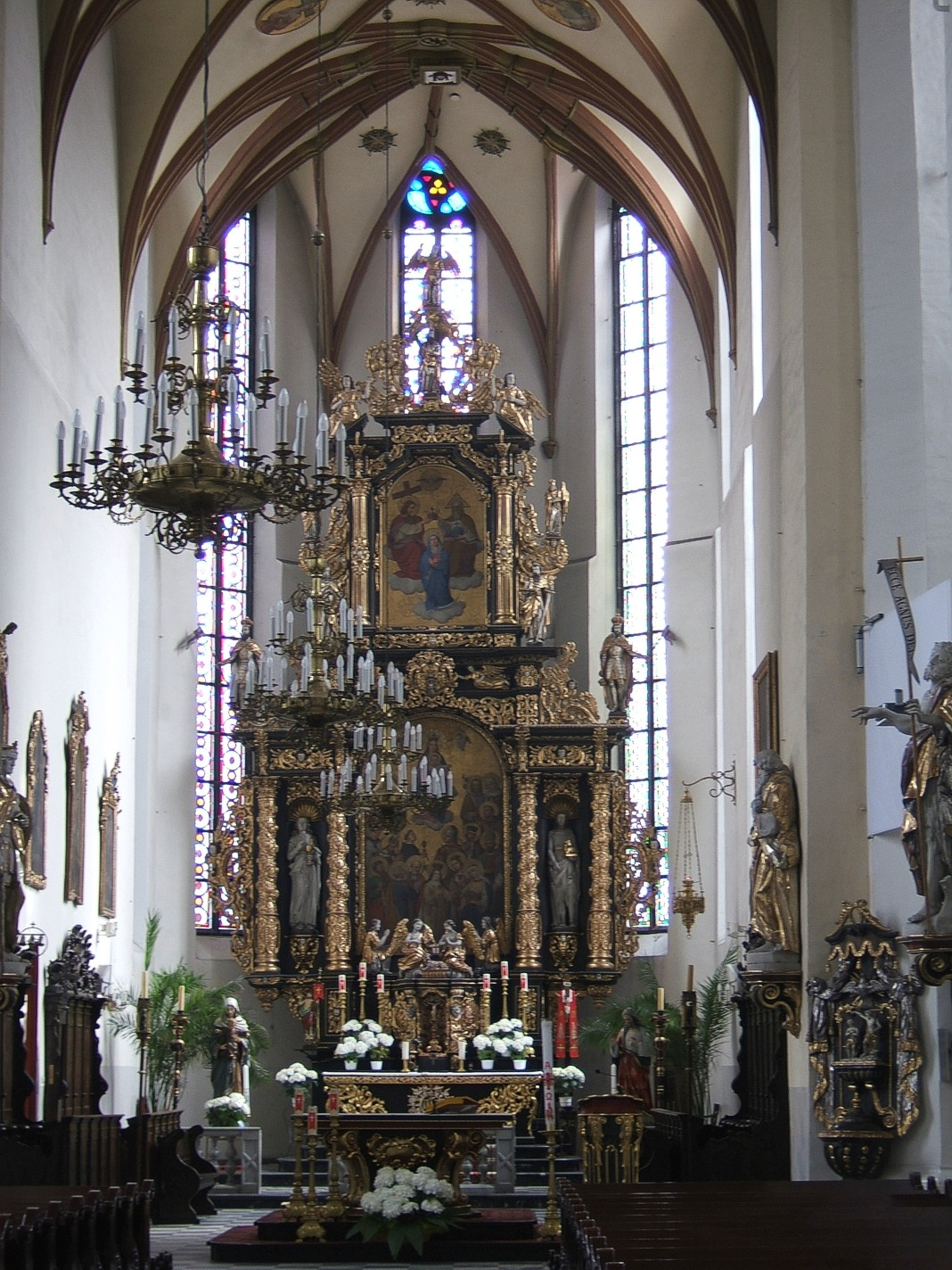 The high altar, a 17th century Renaissance work, in Gliwice's All Saints church.